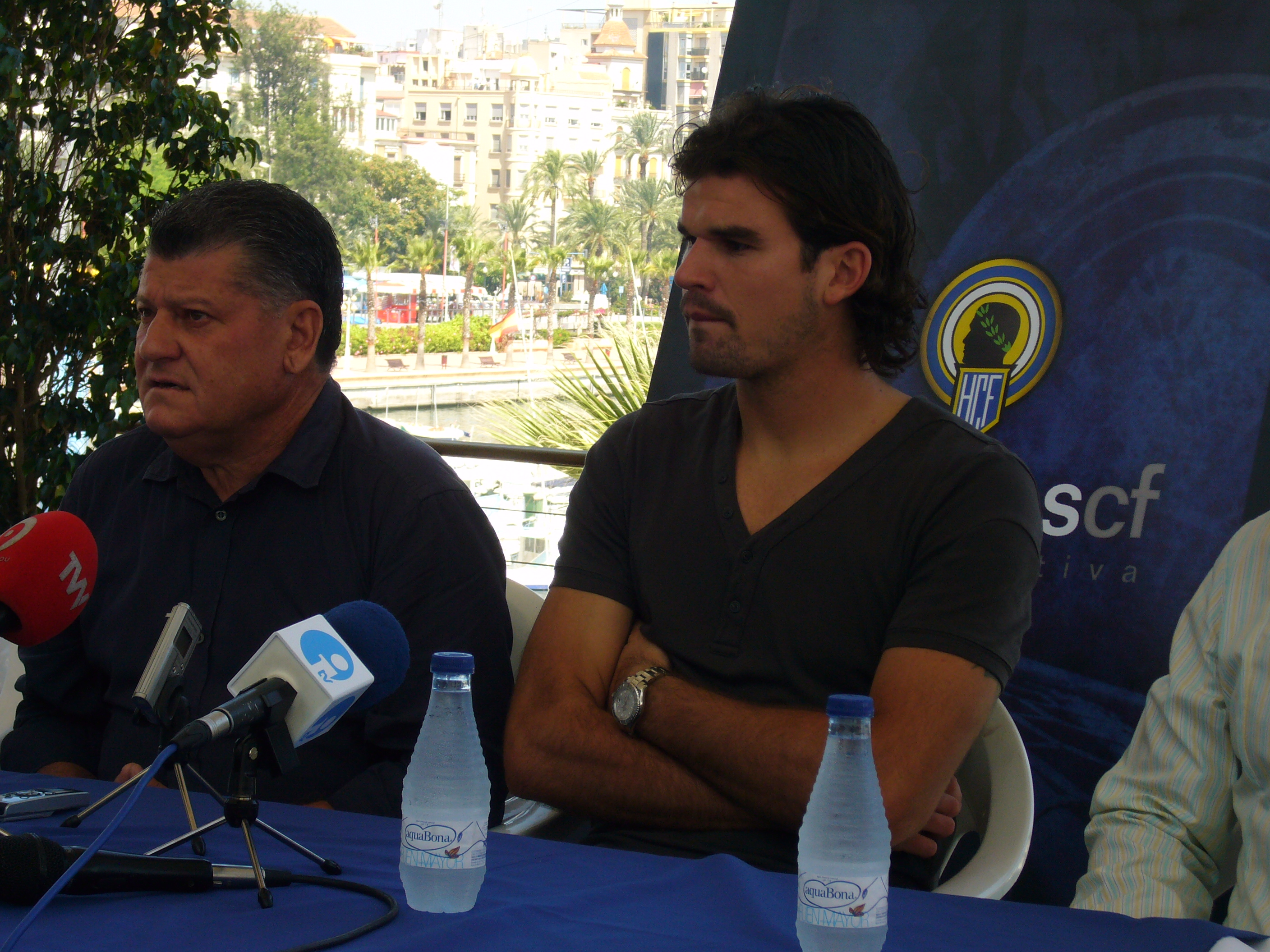 Piet Velthuizen during the press conference on the day of his official presentation as a player of Hércules.